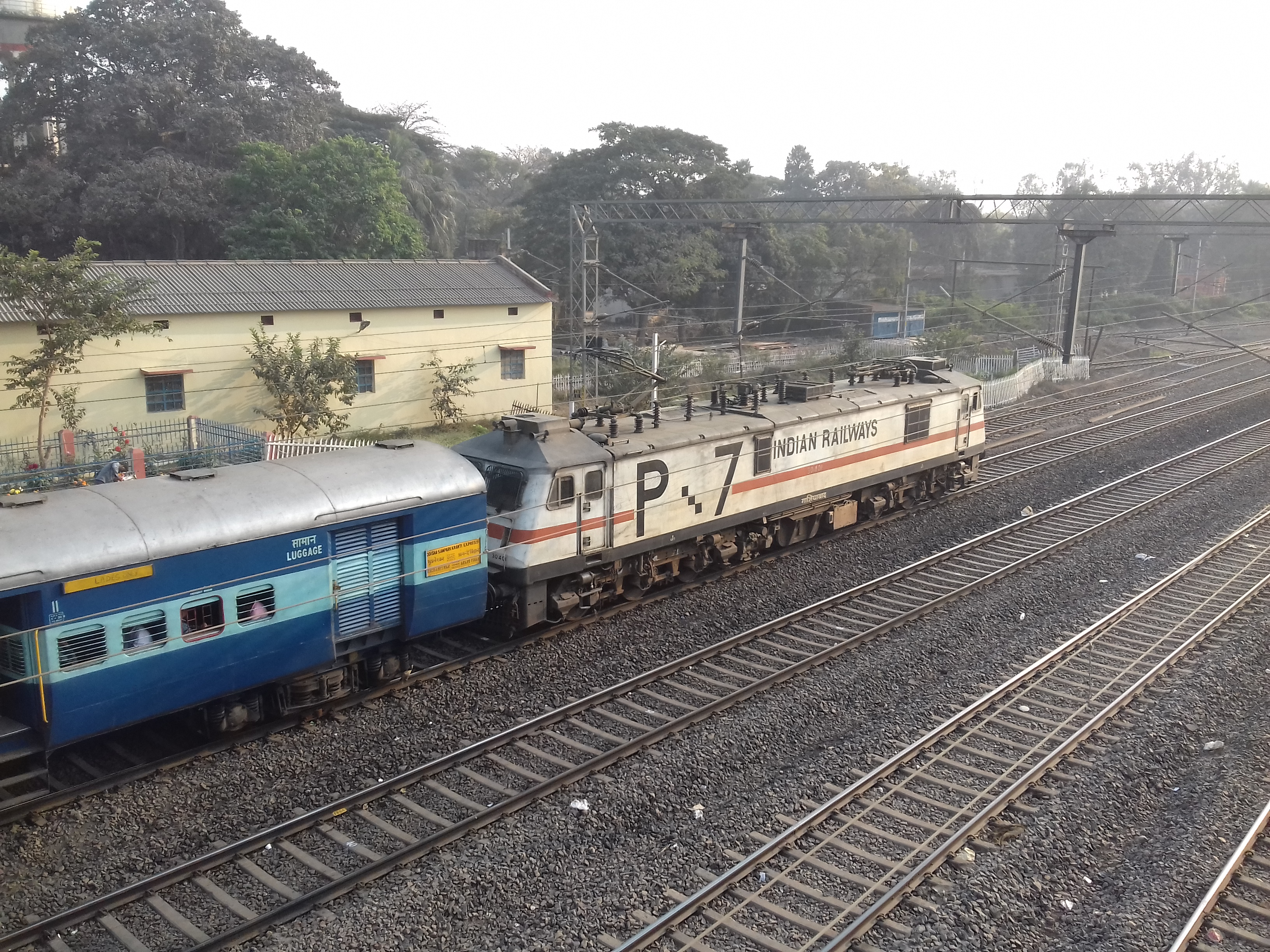 12820 Odisha Sampark Kranti Express departing from Balasore hauled by Ghaziabad WAP-7 30401